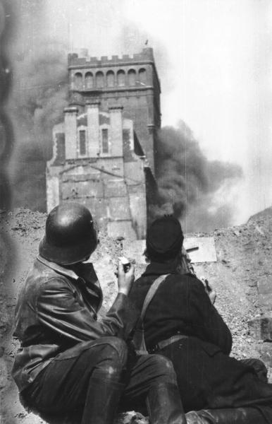 PAST building burning during the Warsaw Uprising Picture taken prior 1945, polish copyright expired